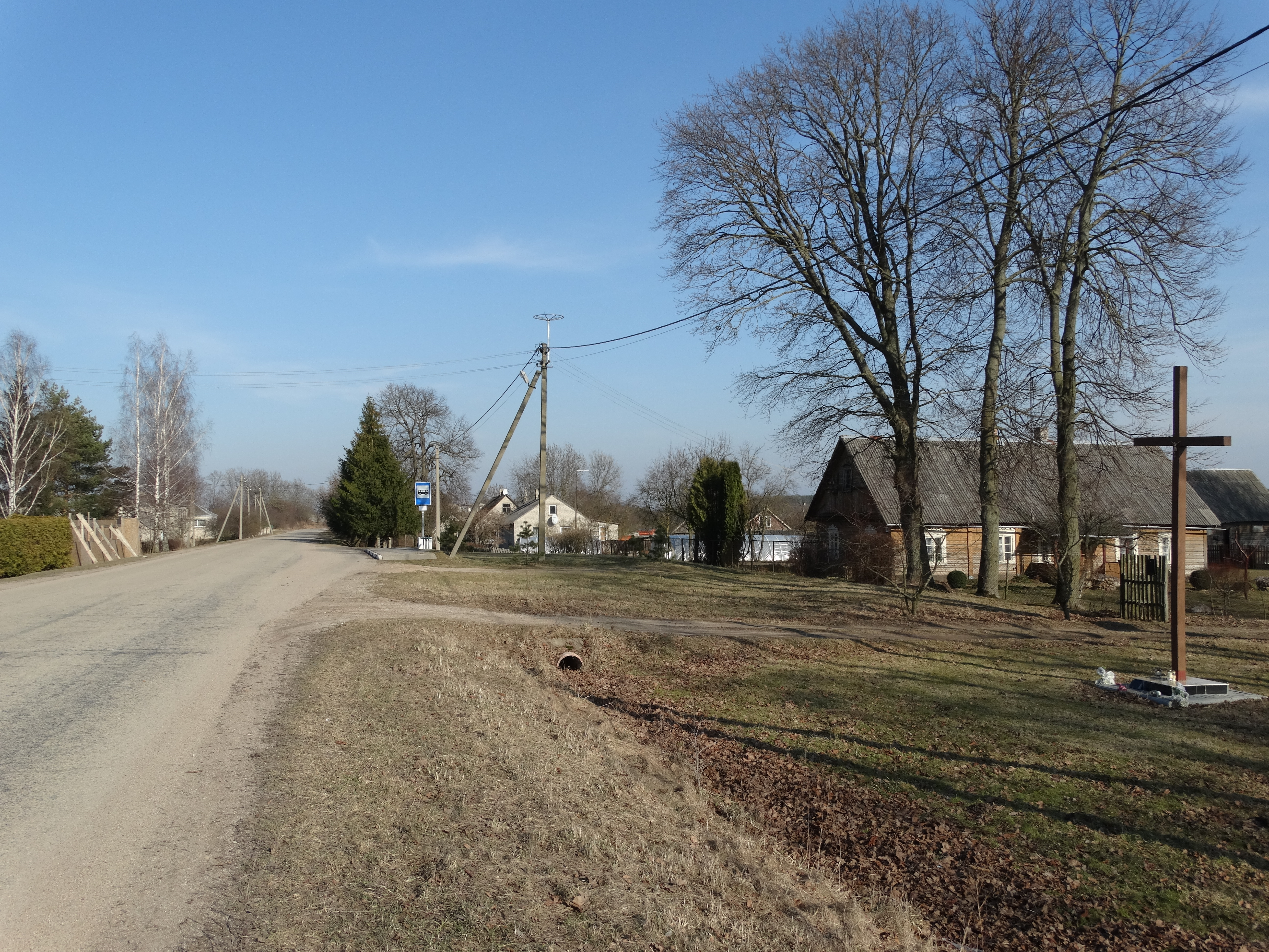 Didžiosios Lapės, Kaunas district, Lithuania